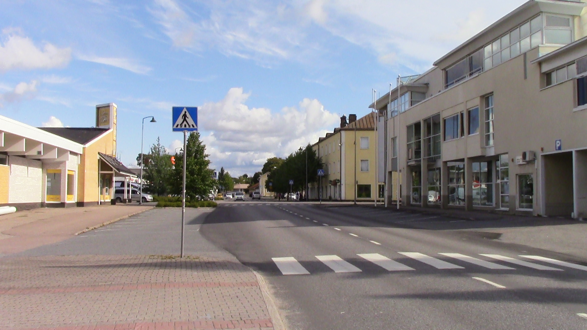 Keskuskatu at the center of Laitila, Finland.